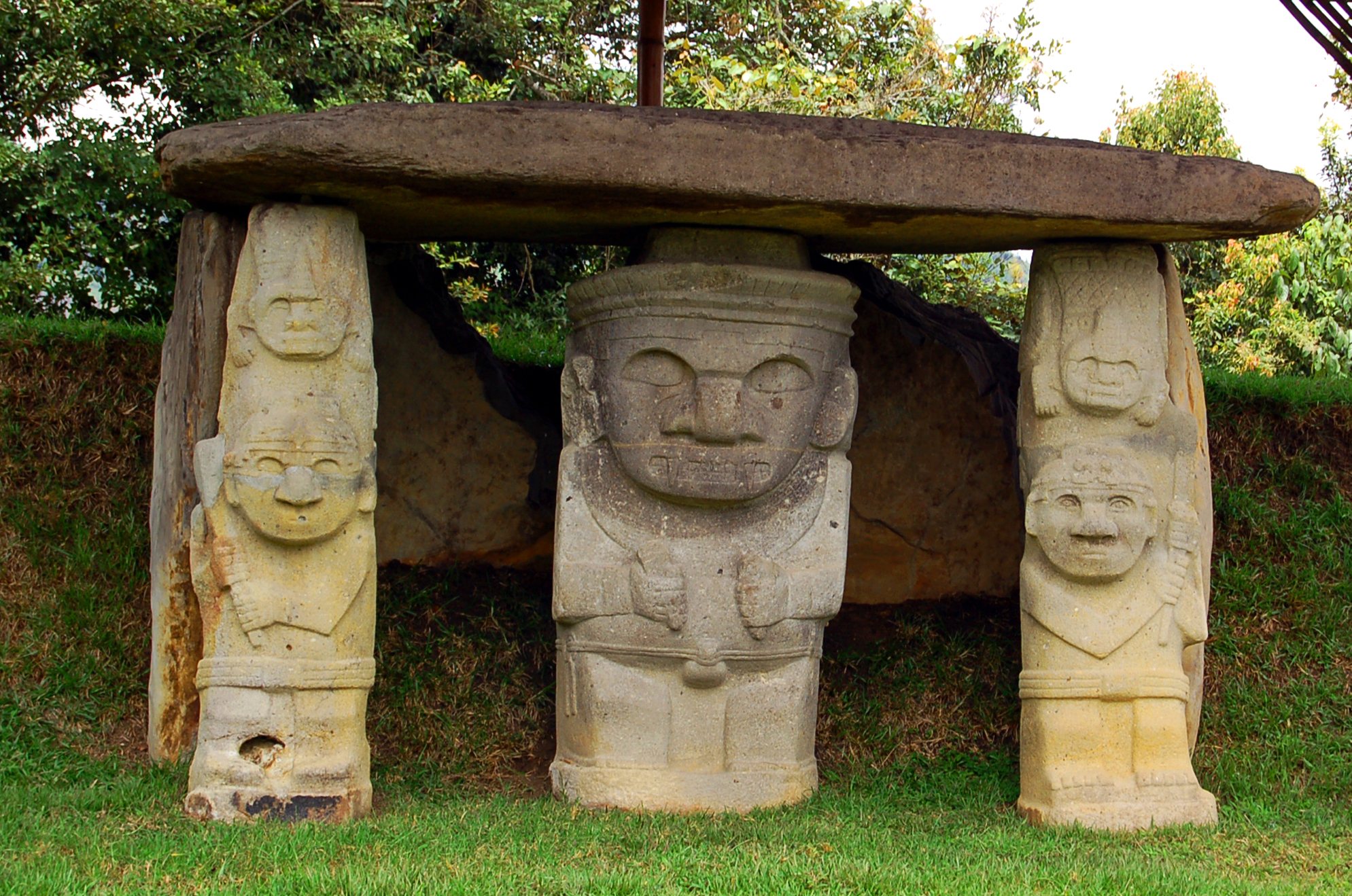 Tomb of a deity with supporting warriors with alter ego's on their backs